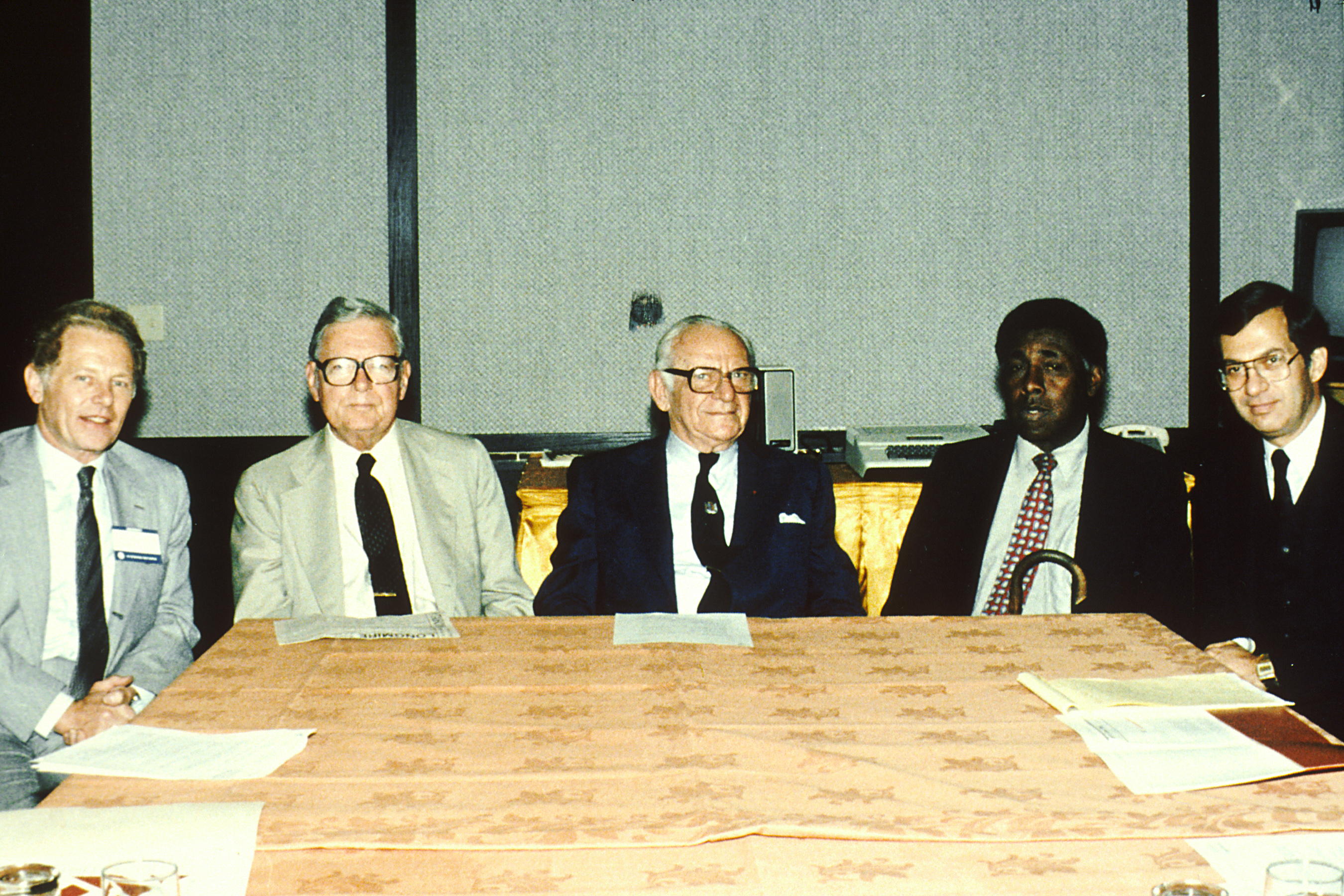 Title President's Cancer Panel Description Group photograph of the president's cancer panel in 1982. (l-r): Dr. Elliott Stonehill, Dr. William Longmire, Armand Hammer, Dr. Harold Amos, Dr. Vincent DeVita. Topics/Categories Historical, Graphics National Cancer Institute, Directors Type Color, Photo Source National Cancer Institute